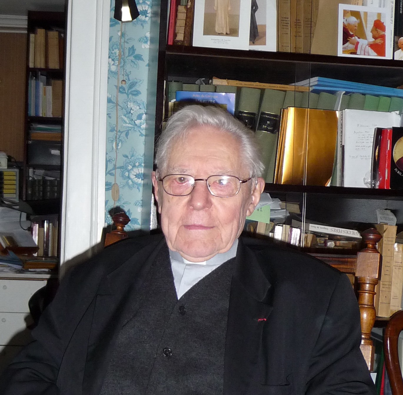 Msgr. Charles Molette (June 21, 1918-August 4, 2013), French Roman Catholic priest and historian